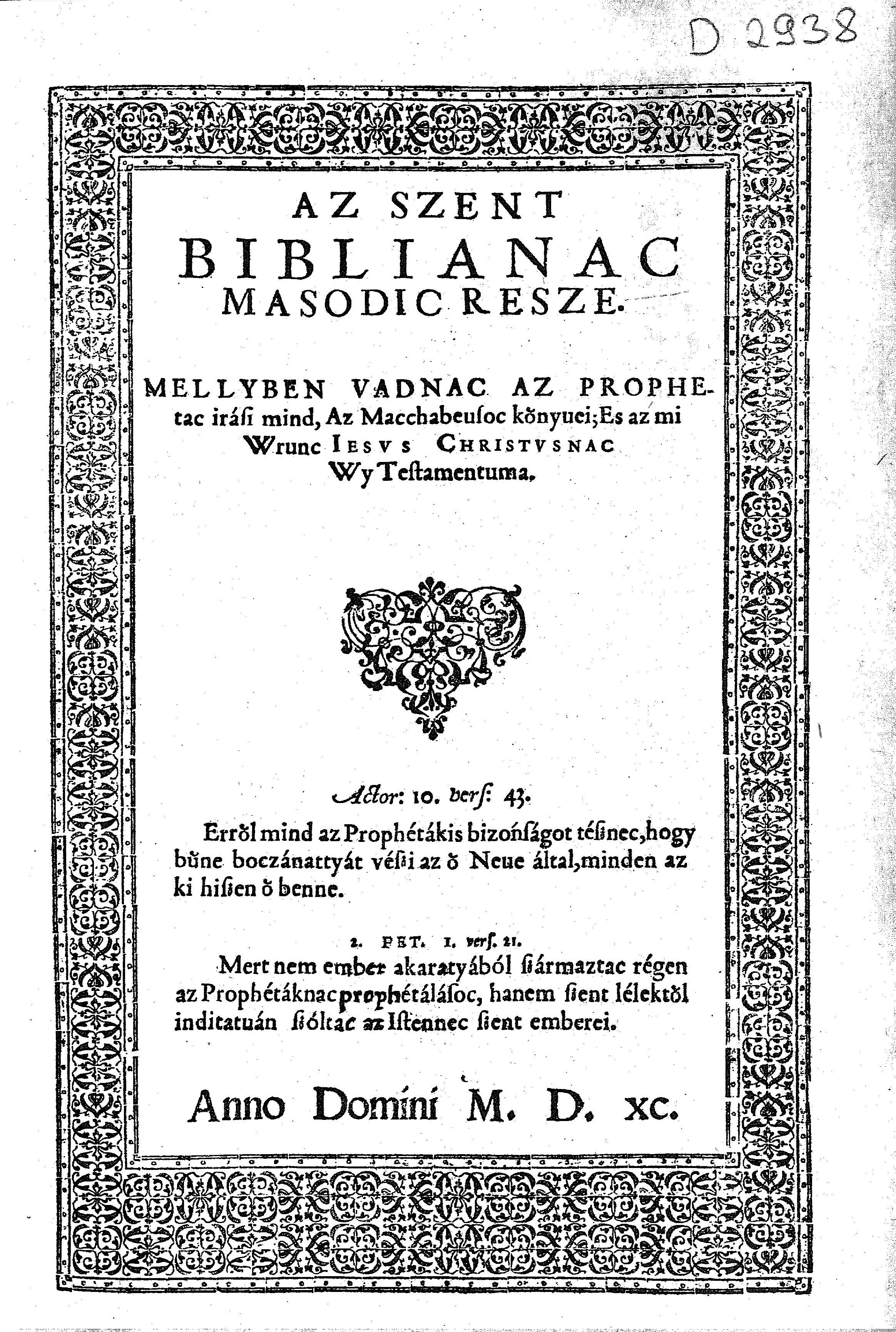 The front page of Vizsolyi Biblia, the first Hungarian Bible